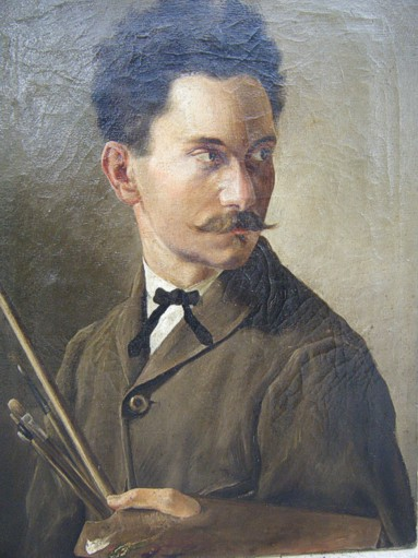 Self portrait, on canvas